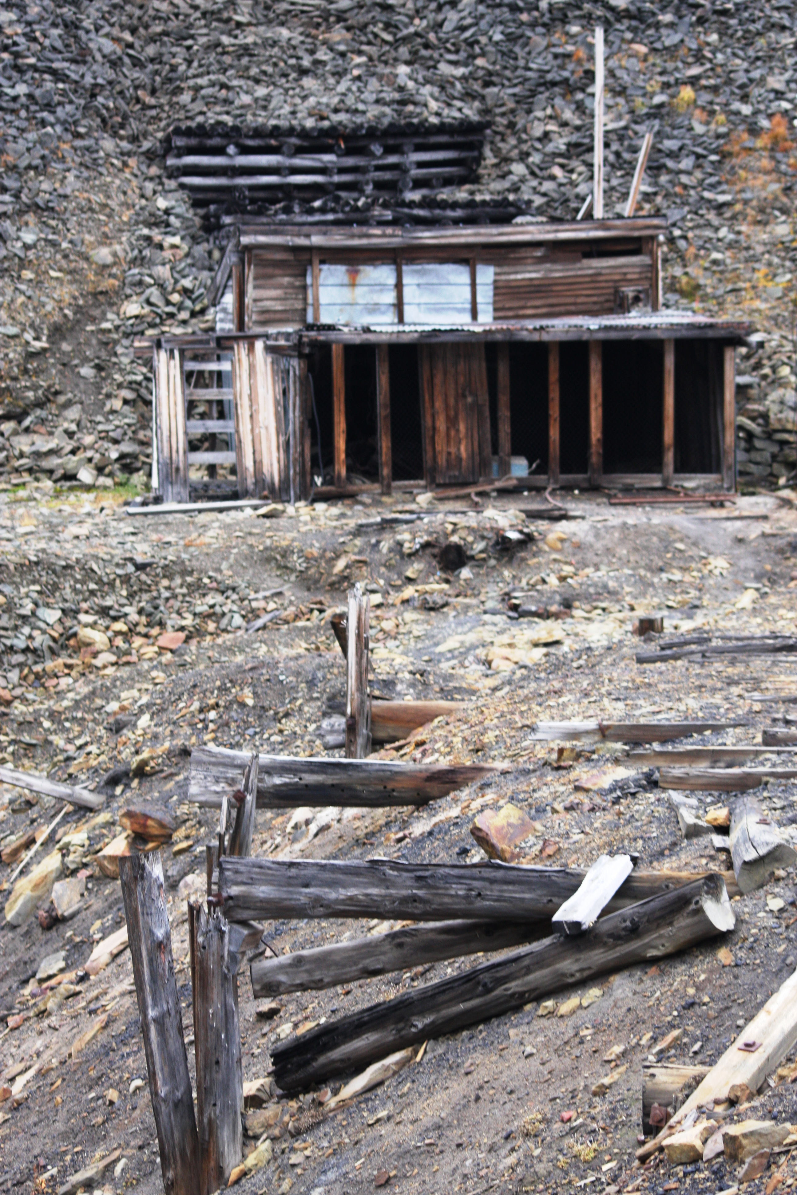 New Mine No 1 (Nye Gruve 1), or No 1b, in Longyeardalen, Svalbard.